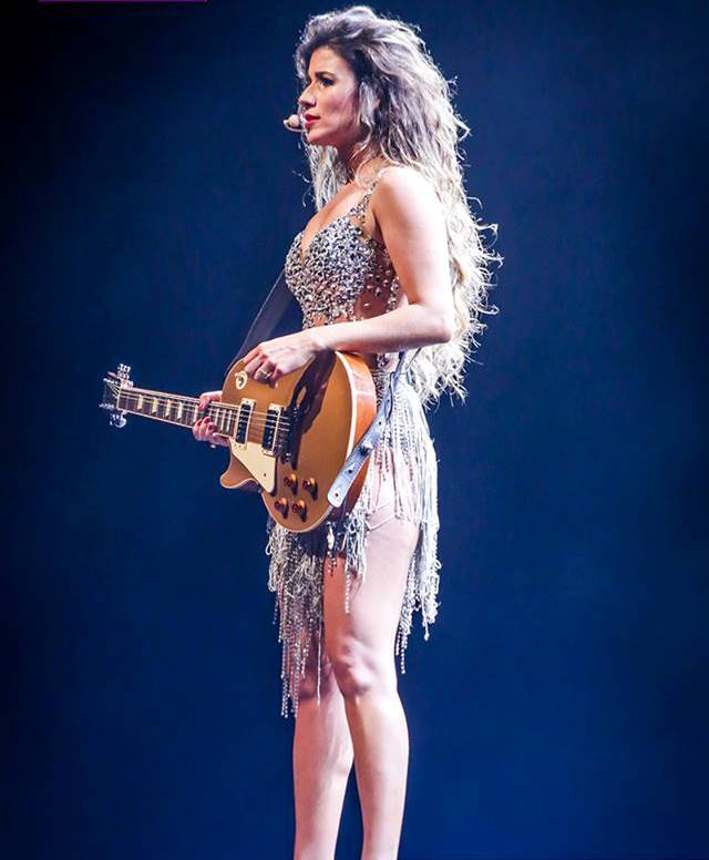 Paula Fernandes on her Um Ser Amor Tour in Vivo Rio